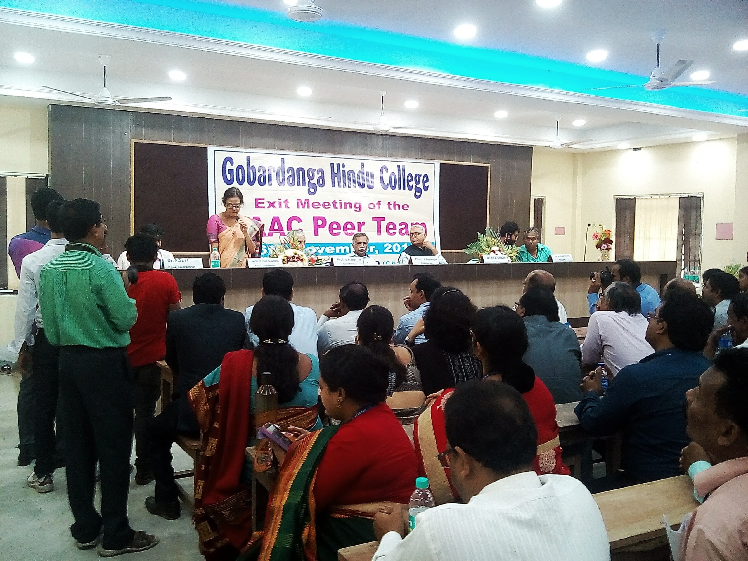 The photo was taken in the seminar Hall on 26 November, 2016. It was the exit meeting of NAAC Peer team.